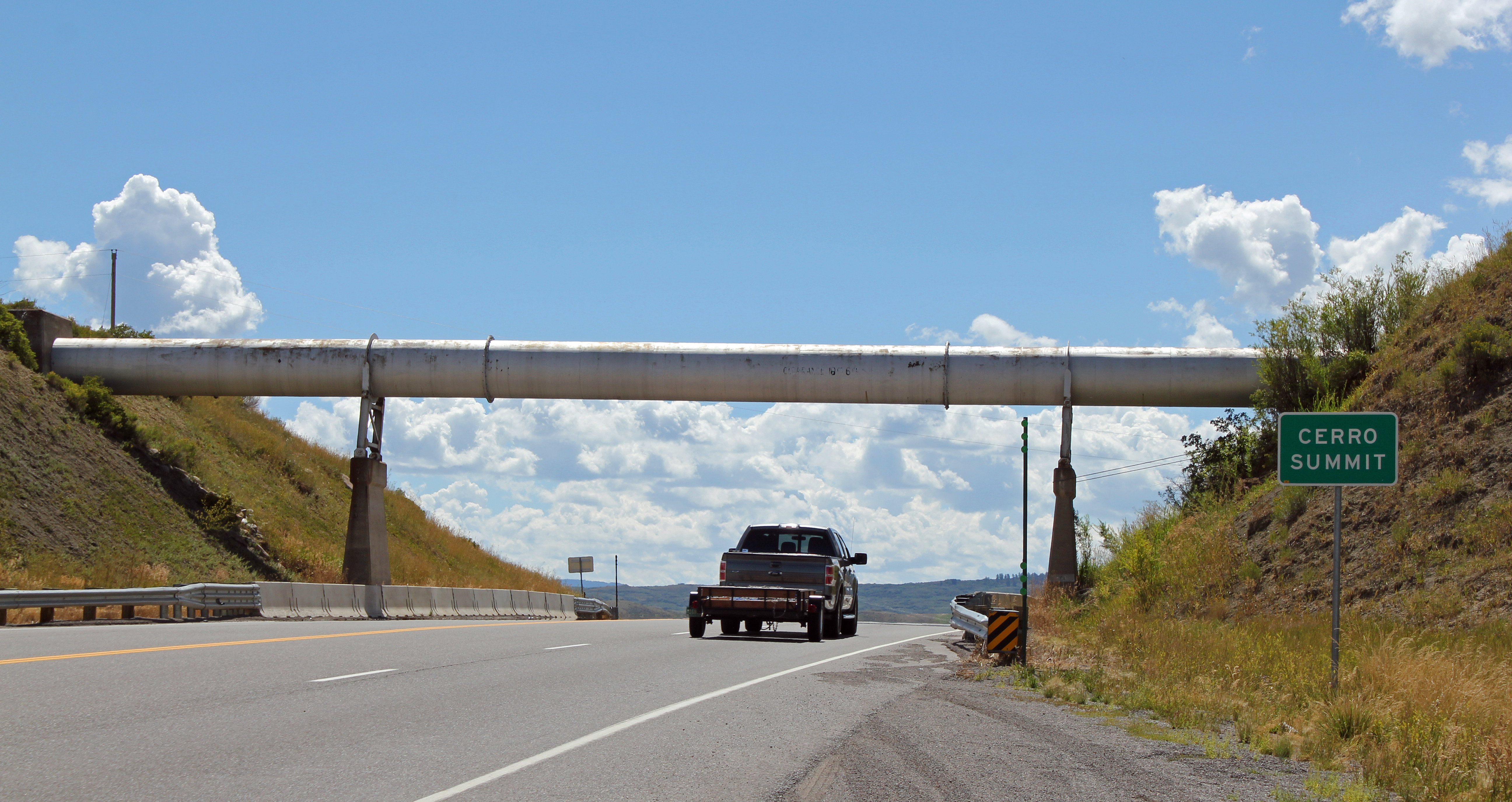 Cerro Summit, a mountain pass in Montrose County, Colorado. U.S. Highway 50 traverses the pass. The large pipe going across the top of the pass carries water from the Vernal Mesa Ditch.